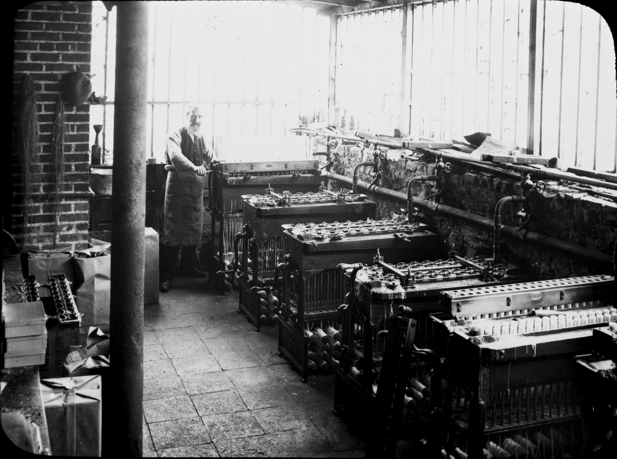 No 6: Rathbourne's No. 9 Piano and factory candles Photographer: Thomas H. Mason Collection: The Mason Photographic Collection Date: 1890-1910 NLI Ref: M11/8 You can also view this image, and many thousands of others, on the NLI’s catalogue at